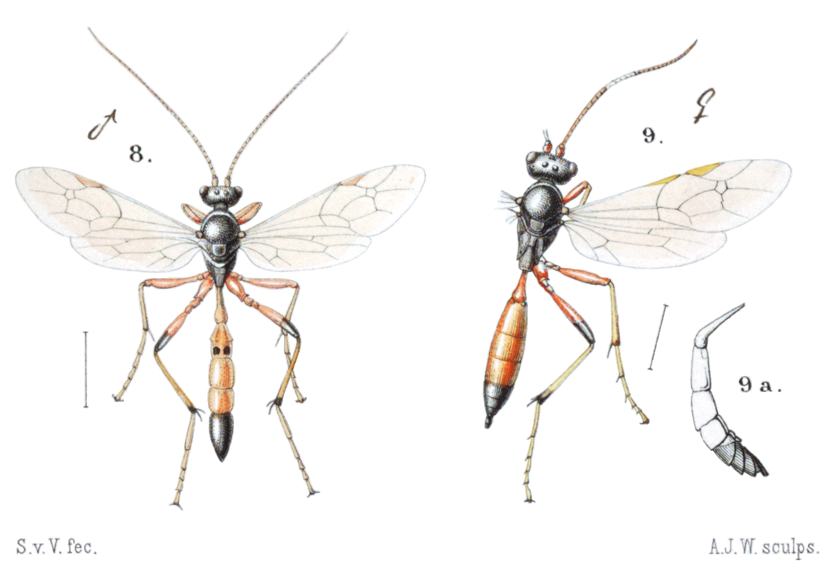 Oronotus coarctatus Mesm = Oronotus binotatus (Gravenhorst, 1829)